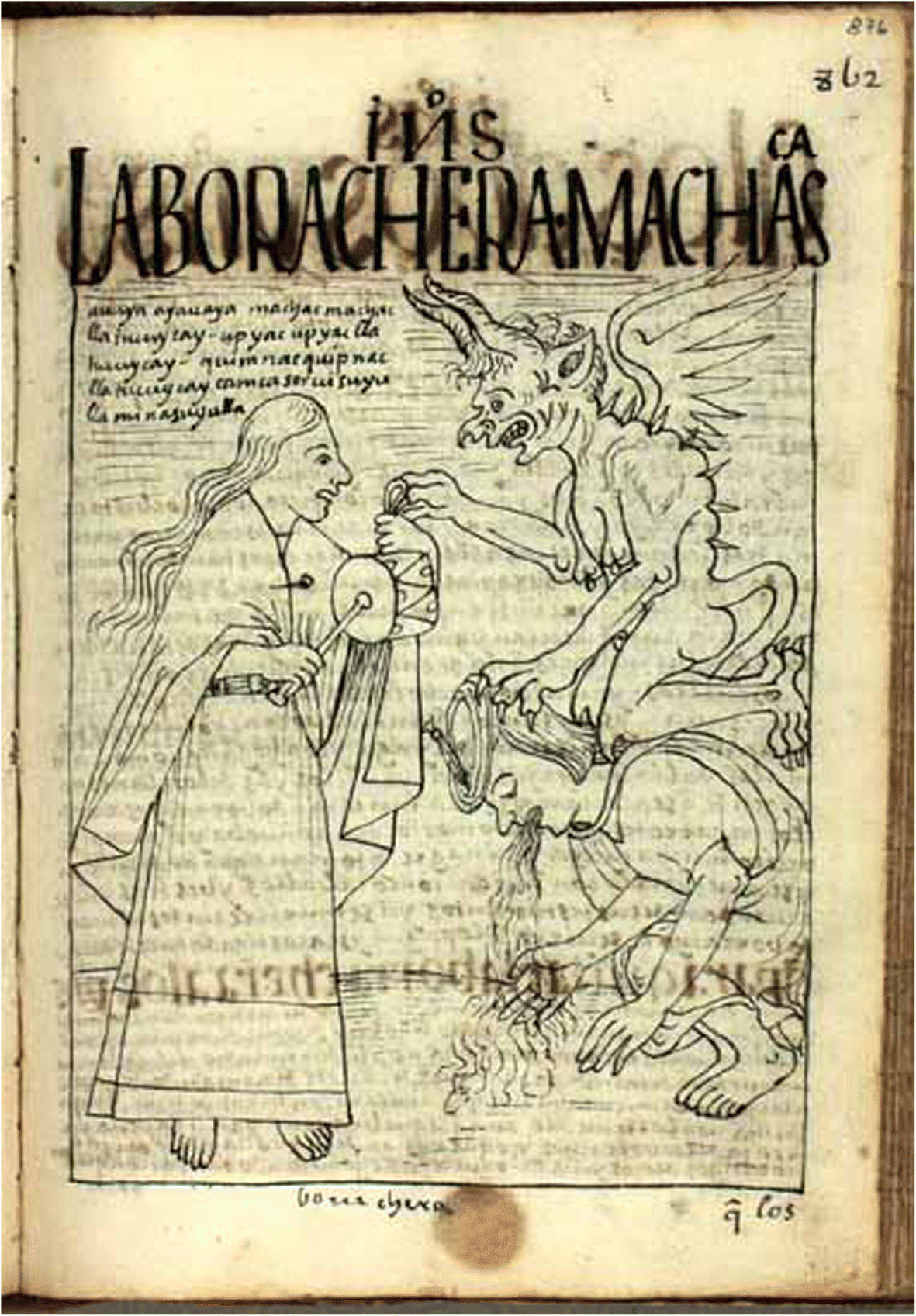 Drawing depicting “La Borachera, Machasca,” may be referring to Taki Onqoy. The woman in the text is scolding the Devil, who has possessed the man drinking heavily (Guaman Poma de Ayala 1615:862[876]). The Quechua text reads “Auaya ayauaya! Machac, machaclla. Tucuy cay upyac, upyaclla. Tucuy cay quimnac, quipnaclla. Tucuy cay camca serui, suyulla. Mina suyulla.” In Spanish, this translates to “Awaya, ayawaya! El borracho, es sólo un borracho, el bebedor sólo un bebedor, quien vomita, sólo vomita. Lo que te toca es servirte, diablo. Las minas son lo que le toca.” In English, this translates to “Awaya, ayawaya! The drunk is just a drunk, the drinker just a drinker, the vomiter only vomits. What you do is serve yourself, devil. The mines are where you belong”